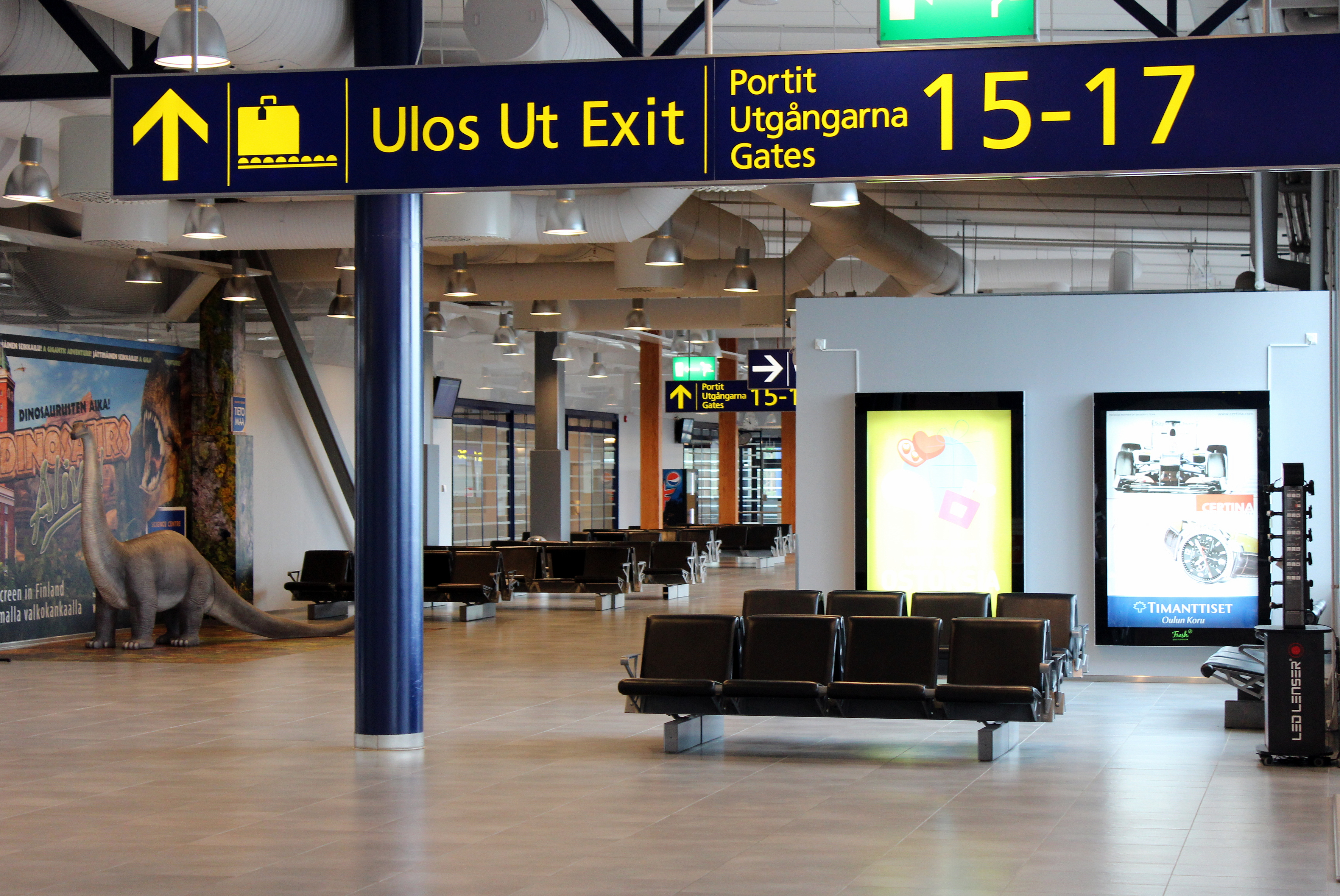 Interior of Oulu Airport Terminal.